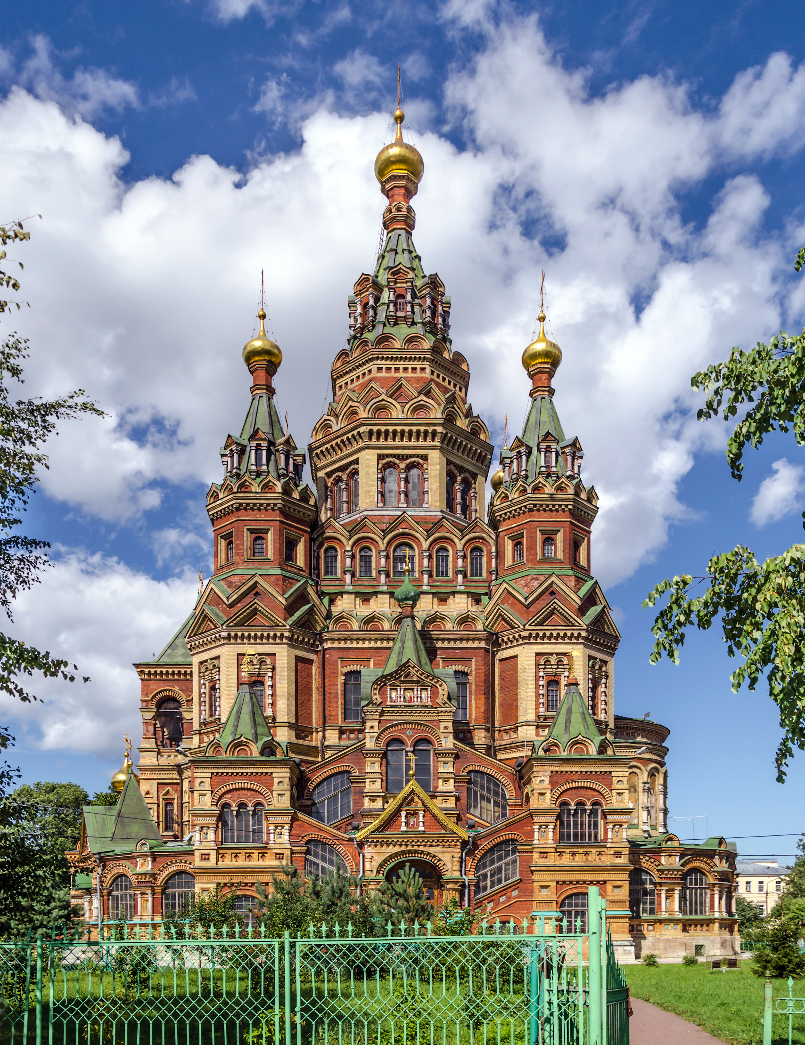 The cathedral of Peter and Paul in Peterhof. Designed by Nikolay Sultanov, built in 1894-1905 by Vasily Kosyakov